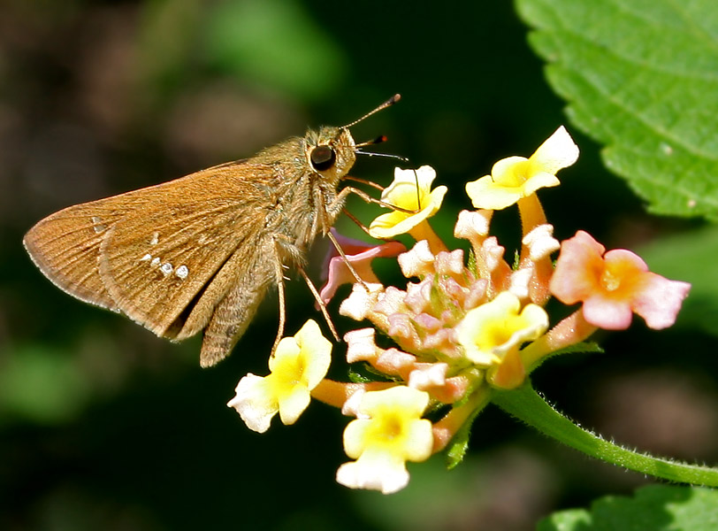 African Straight Swift, Grey Swift or Ceylon Swift Parnara bada in Hyderabad, India.